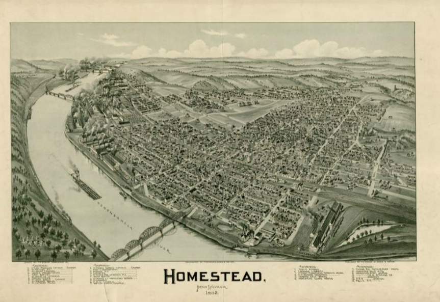 An early map of Homestead PA, original print from housed in the Archives Service Center, University Library System, University of Pittsburgh at